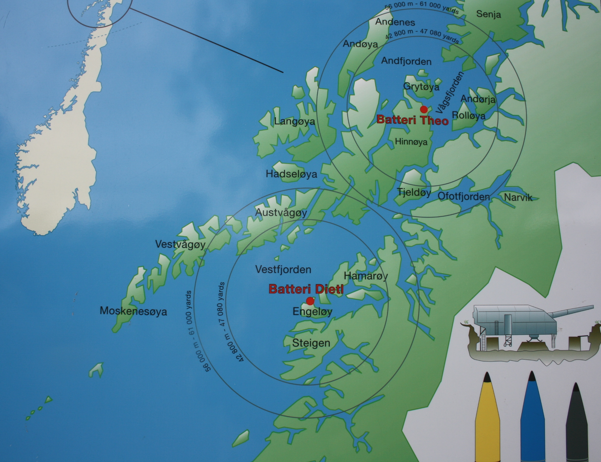 Range of the German 40.6 cm gun batteries Theo and Dietl at the entrances to the Narvik Fjord, Norway.